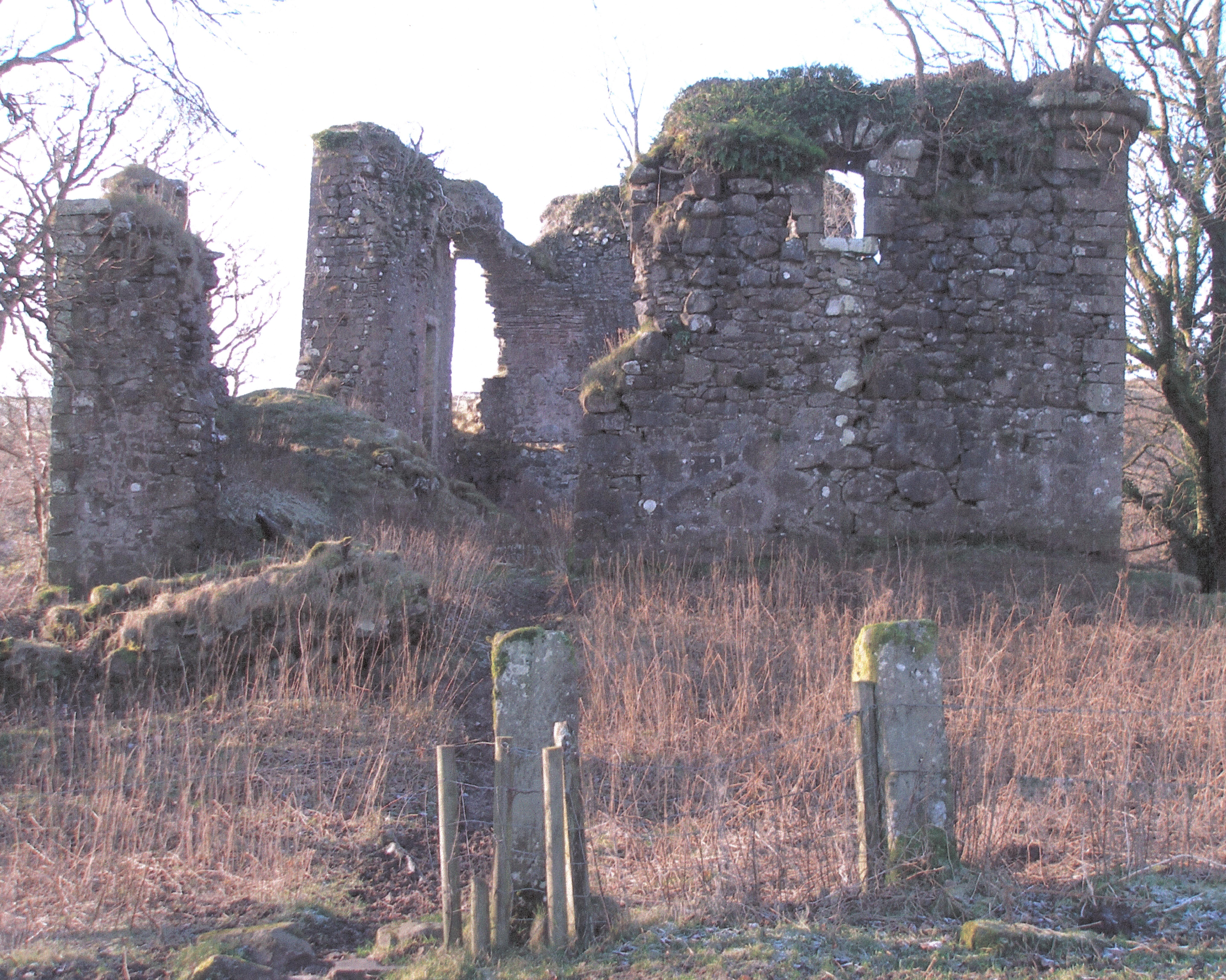 Glengarnock Castle entrance view, Kilbirnie, North Ayrshire, Scotland